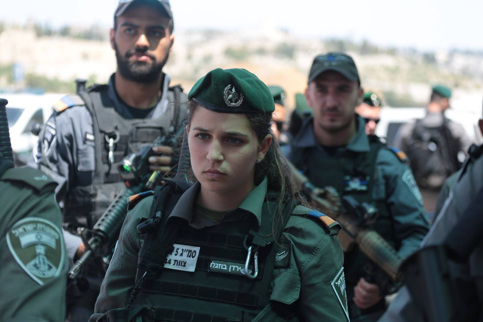 Israeli police officers in Jerusalem on 28 July 2017